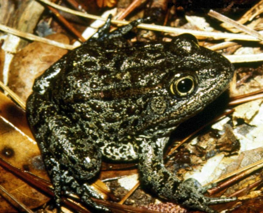 Mississippi gopher frog. Lithobates sevosus (Goin and Netting, 1940), synonyms Lithobates sevosa Goin & Netting, 1940; Rana sevosa Goin and Netting, 1940